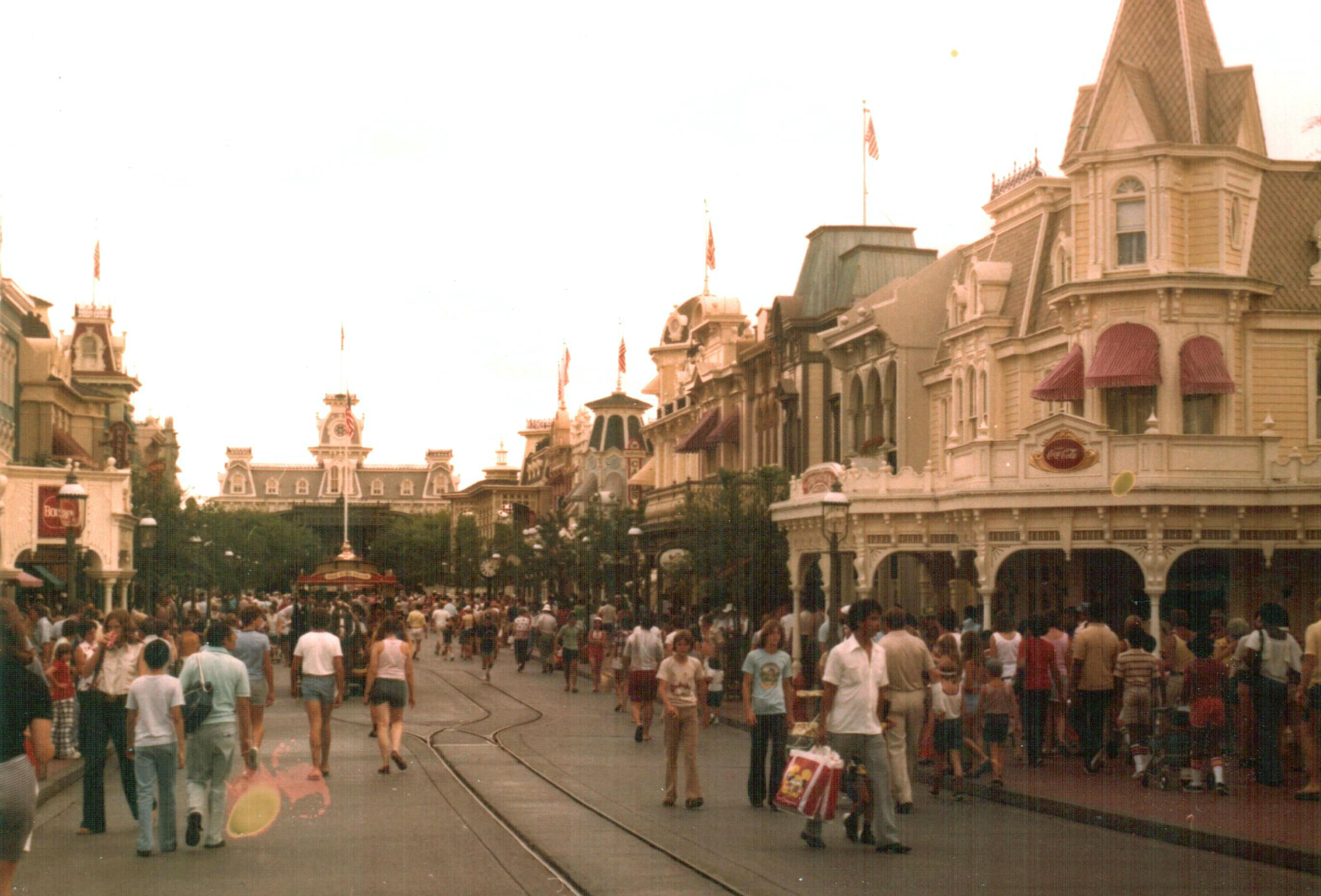 Live in Florida, august, 1977, United States of America. Disneyland.. Published under Creative Commons in the Metapolisz DVD line.